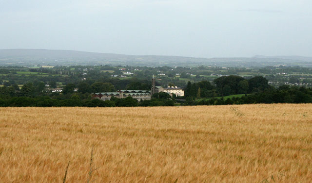 Our Lady of Bethlehem Abbey from Top Wood This is the view the Our Lady of Bethlehem Abbey in Portglenone taken from the edge of Top Wood C9903. This is a house of the Cistercian Order, established here in 1948.